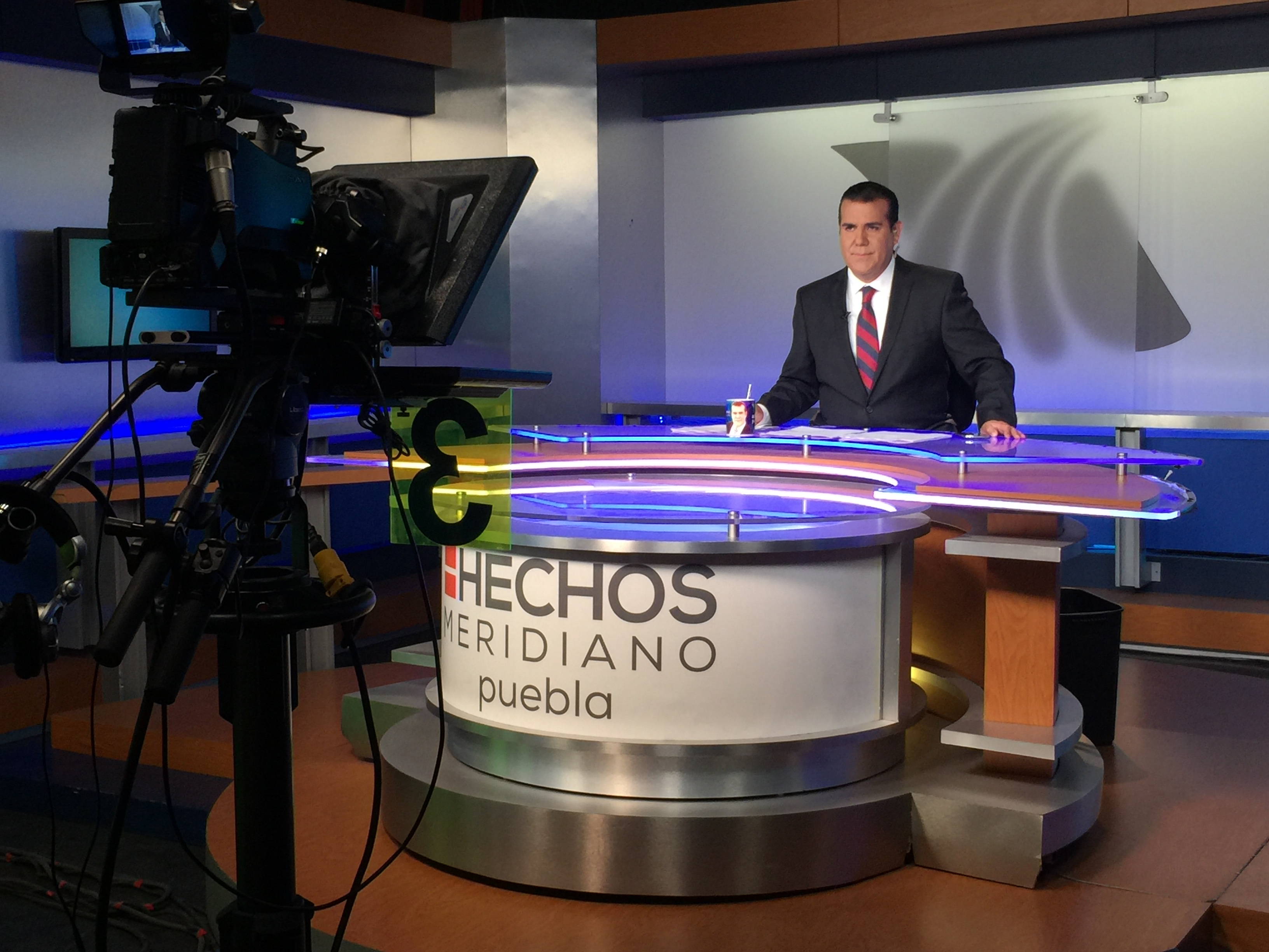 Juan Carlos Valerio, a TV anchorman in Puebla, presenting the news